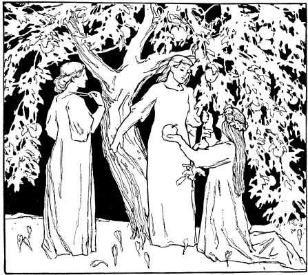 Illustration by Otto Ubbelohde to the fairy tale The Gnome